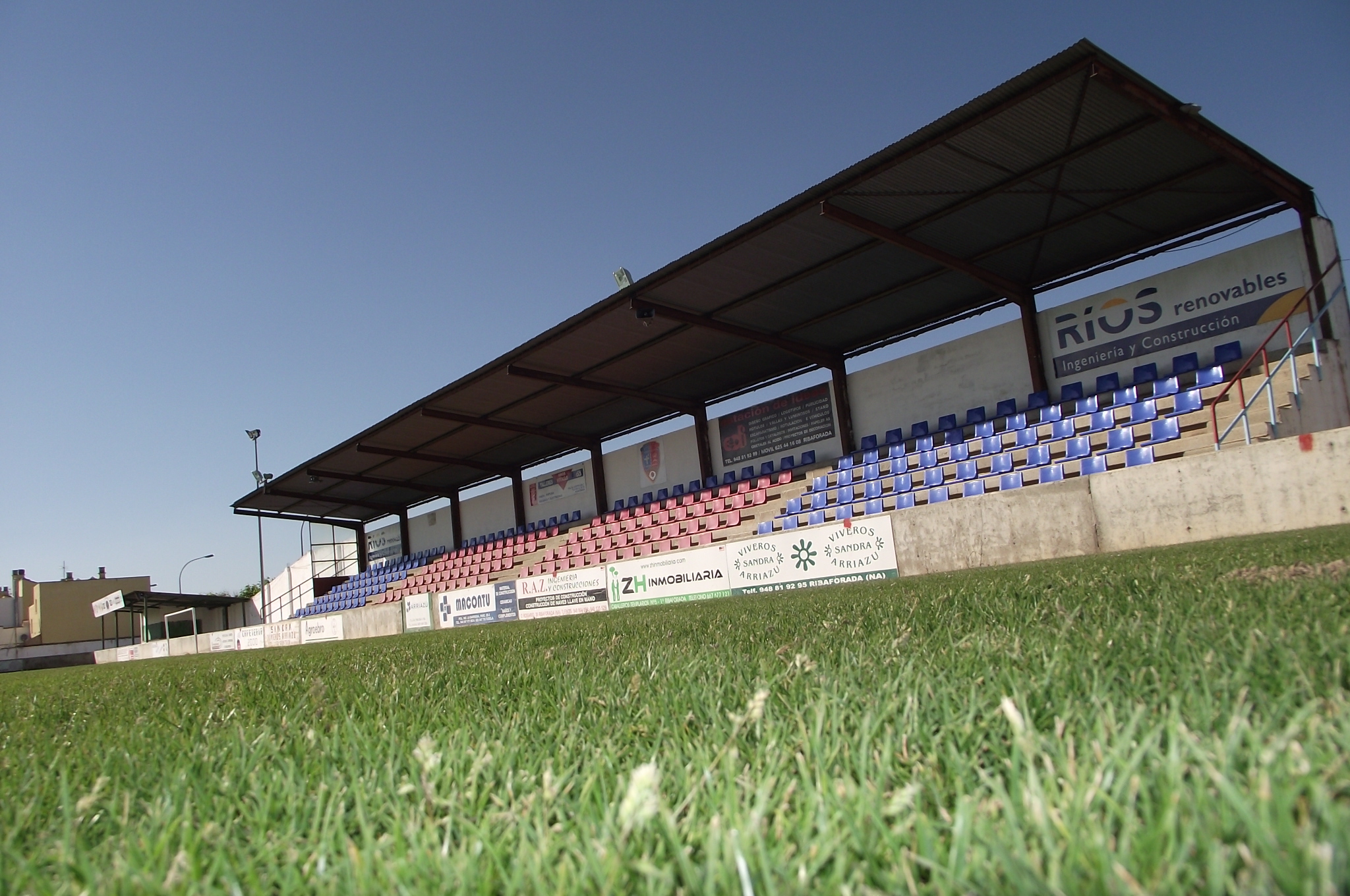 Estadio de fútbol San Bartolomé de Ribaforada.